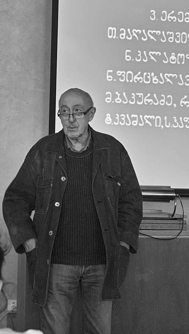 Otar Ioseliani in Basel, october 2, 2015